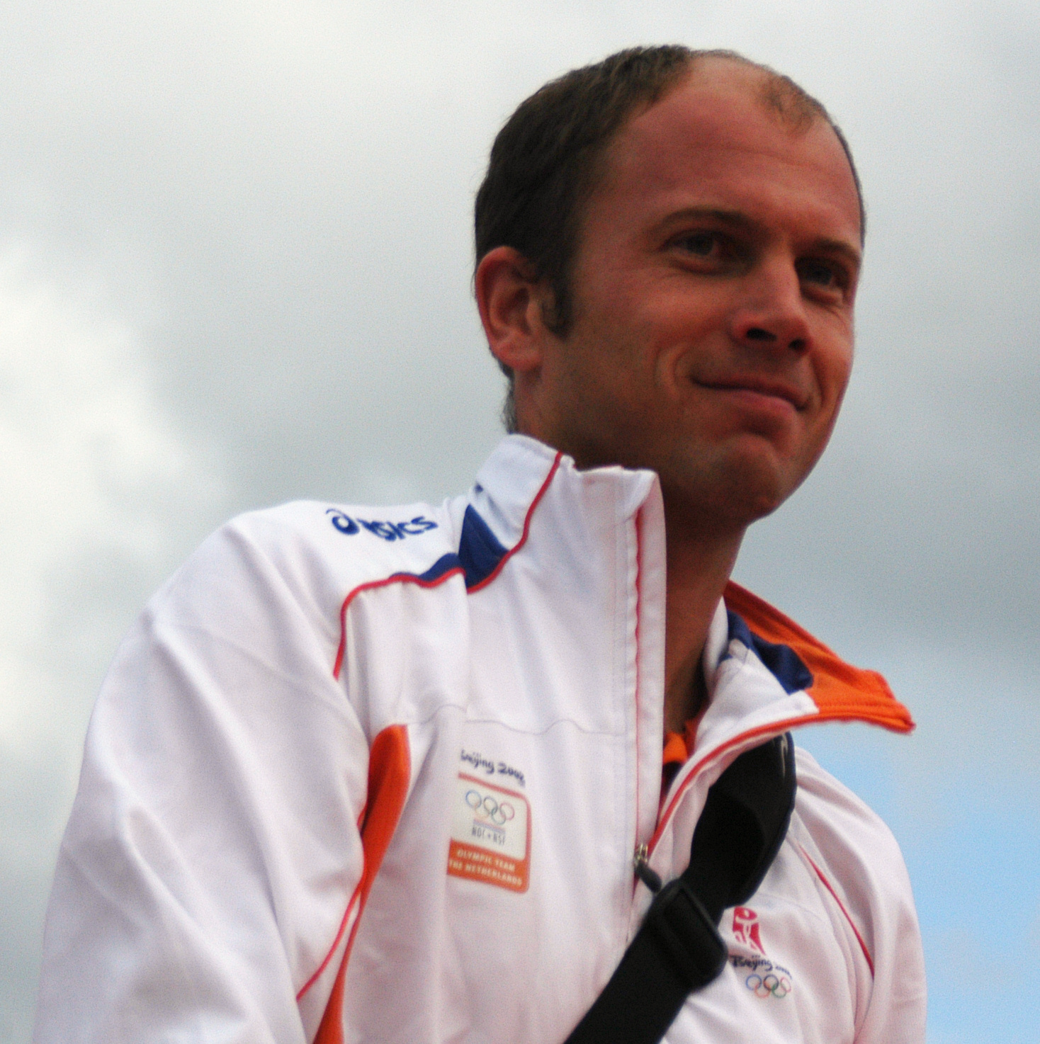 Teun de Nooijer at the Olympic welcome in the Olympic Stadium in Amsterdam, the Netherlands